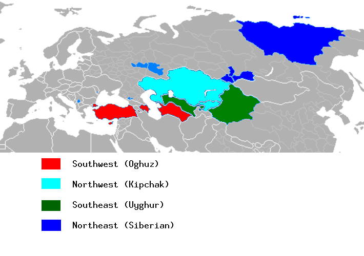 The groups of the Turkic languages.